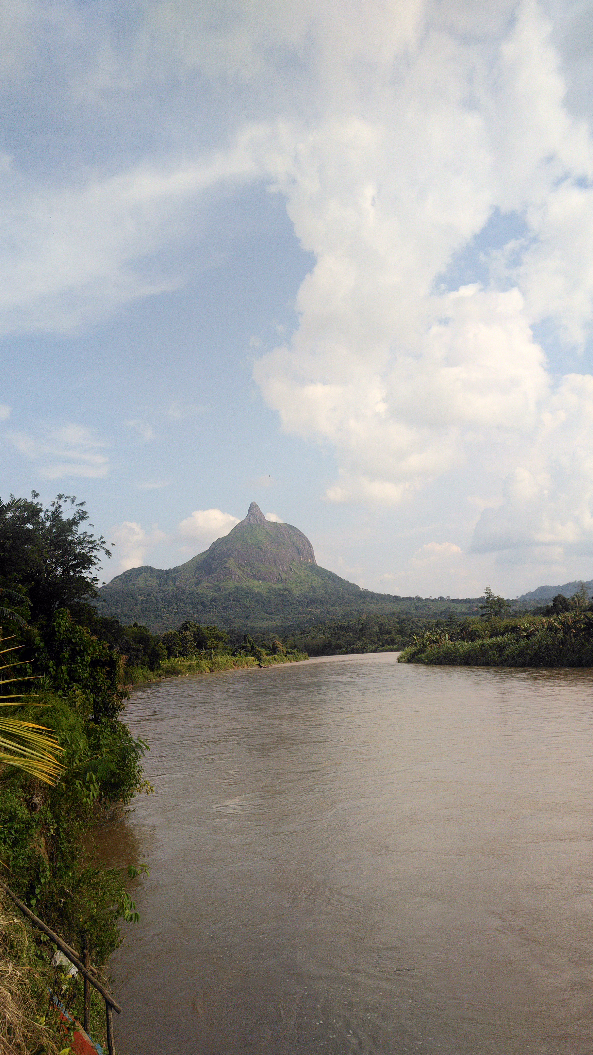 View of Serelo Hill and Lematang riverflow, taken from Wisata Pelancu Ulak Pandan, Merapi Barat, Lahat.